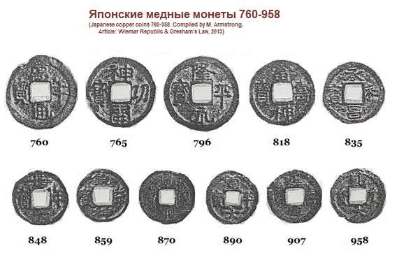 Gresham’s Law illustration. M. Armstrong, Wiemar Republic & Gresham’s Law, Japanese medieval coin shrinkage after An Lushan Rebellion 755 and it's long term consequences, Article of 2013